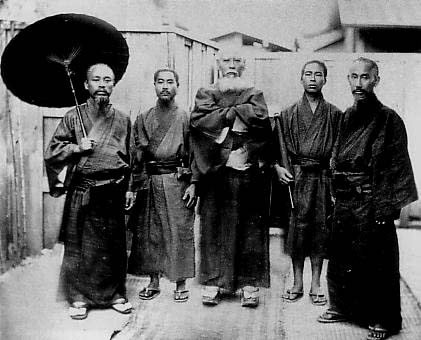 Five men wearing Ryukyuan Dress